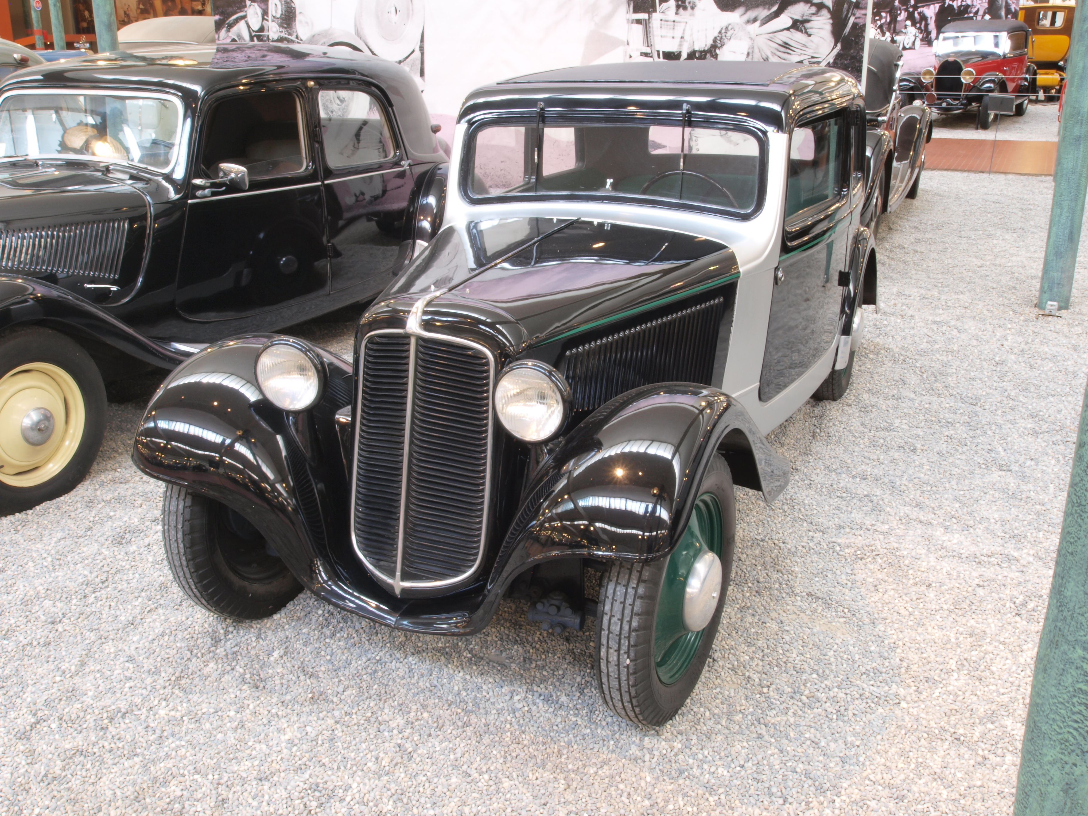 Photographed at the Cité de l’Automobile, France. OLYMPUS DIGITAL CAMERA